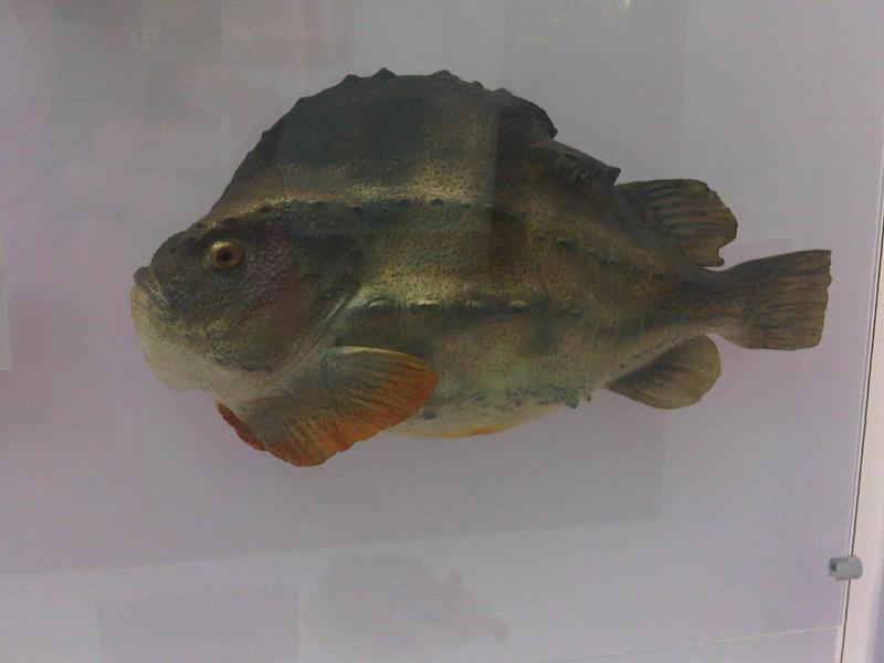 Lumpsucker or lumpfish (Cyclopterus lumpus) at the Natural History Museum in London, England.